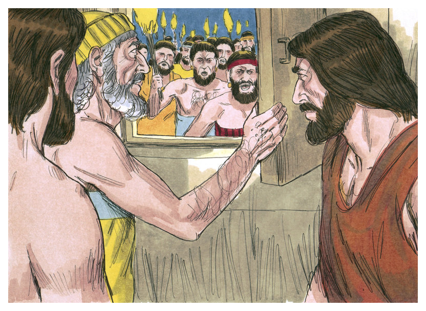 Biblical illustration of Book of Genesis Chapter 19